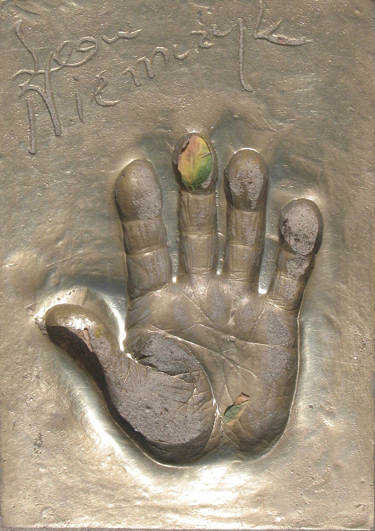 Leon Niemczyk - handprint and signature in Międzyzdroje